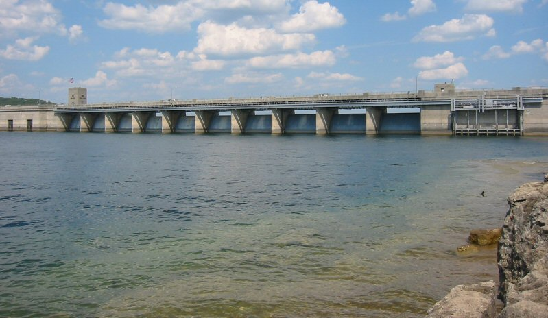 Table Rock Dam that forms Table Rock Lake in Branson, Missouri, United States.